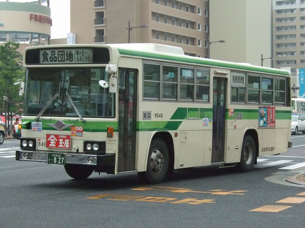 Company:Sasebo City Transportation Bureau Use:transit bus Car license:佐世保22 か・827 Code:市846 Chassis manufacturer:Hino Motors Coachbuilder:Nishinippon Shatai Kogyo Location:in Sasebo City, Nagasaki, Japan.